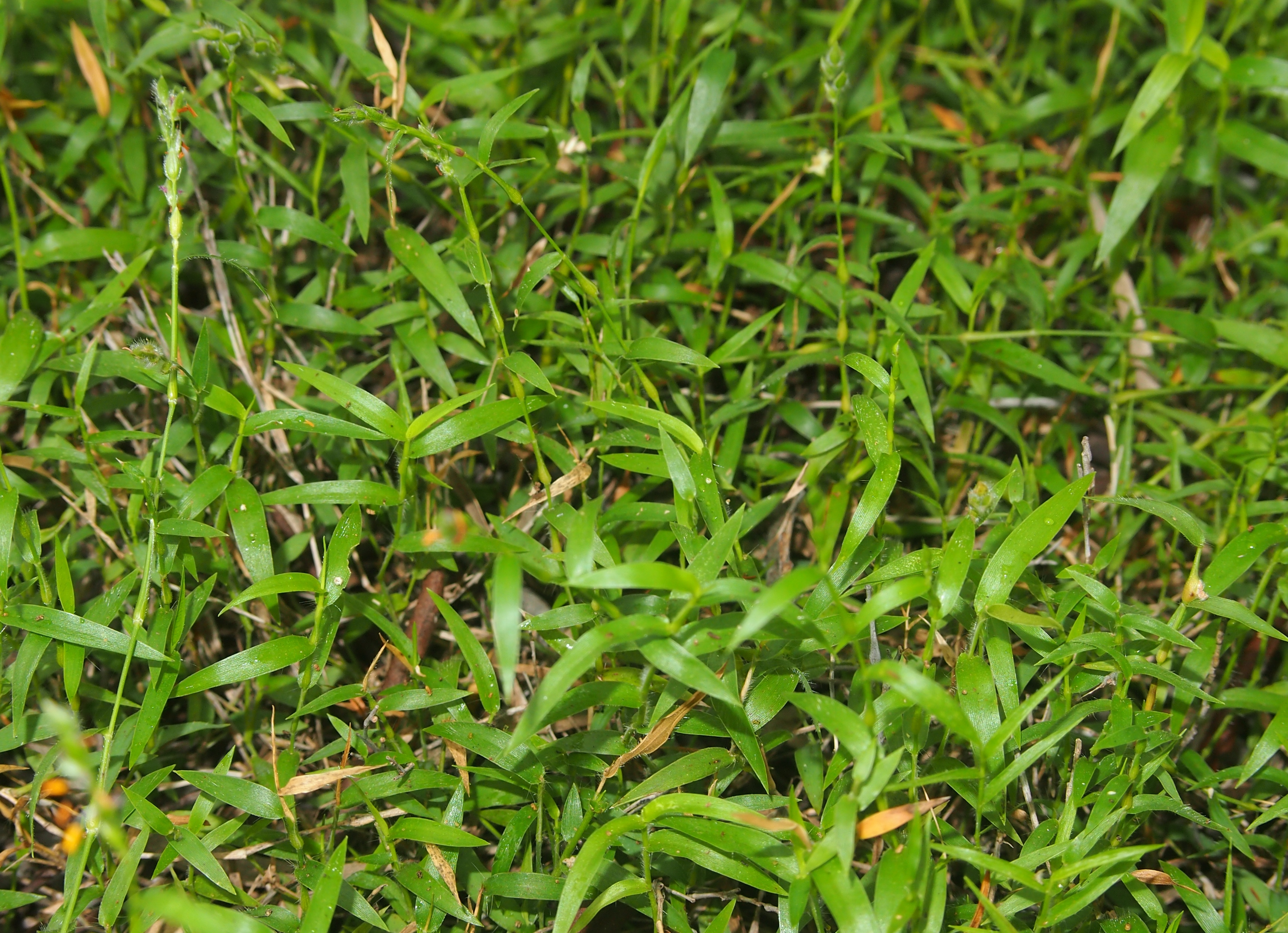 Calyptochloa gracillima habitus